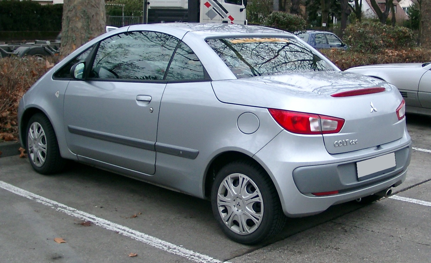 Mitsubishi Colt CZC